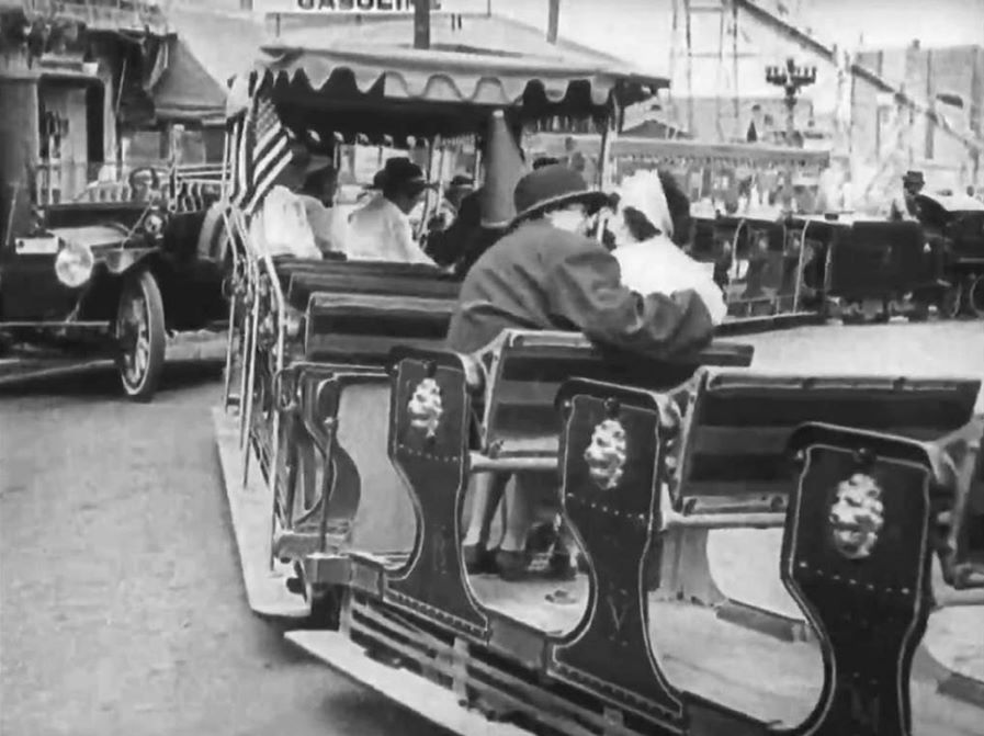 Harold Lloyd - 'All Aboard! By the Sad Sea Waves' on the Venice Miniature Railway. The movie concludes when Harold Lloyd and his recent conquest Bebe Daniels ride off into the sunset aboard the Venice Miniature Railway.